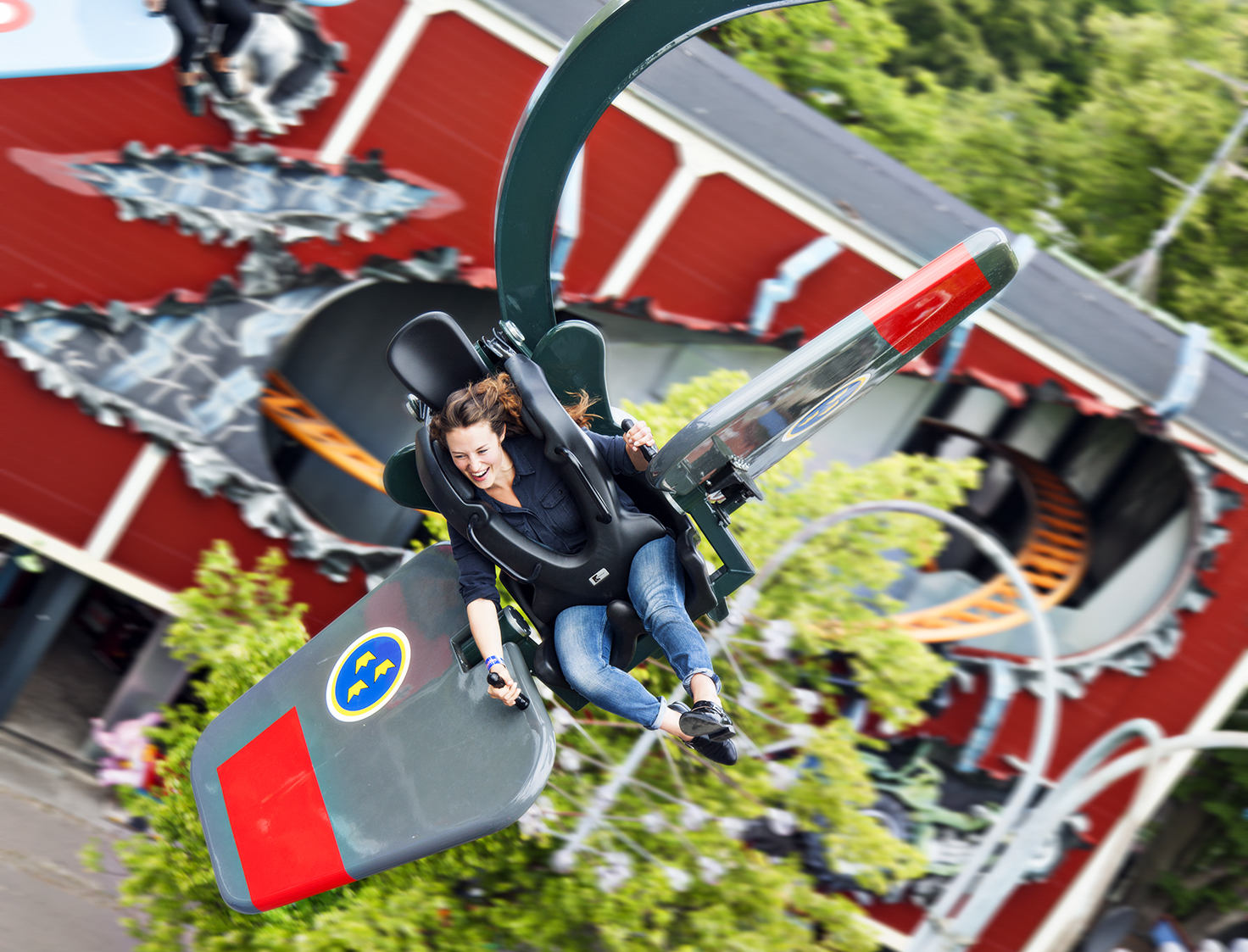 The amusement park Bakken north of Copenhagen.